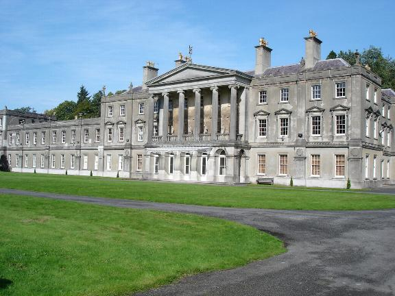 Plas Glynllifon The mansion house at Glynllifon country park. Currently empty the house has undergone substantial external repairs.